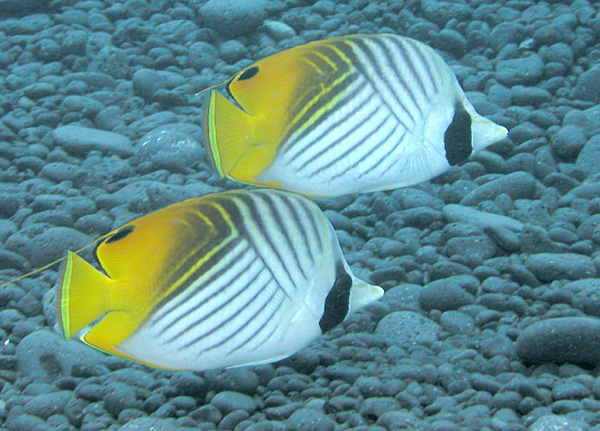 Threadfin Butterflyfish (Chaetodon auriga), Kona, Hawaii. Image taken by Clark Anderson/Aquaimages.